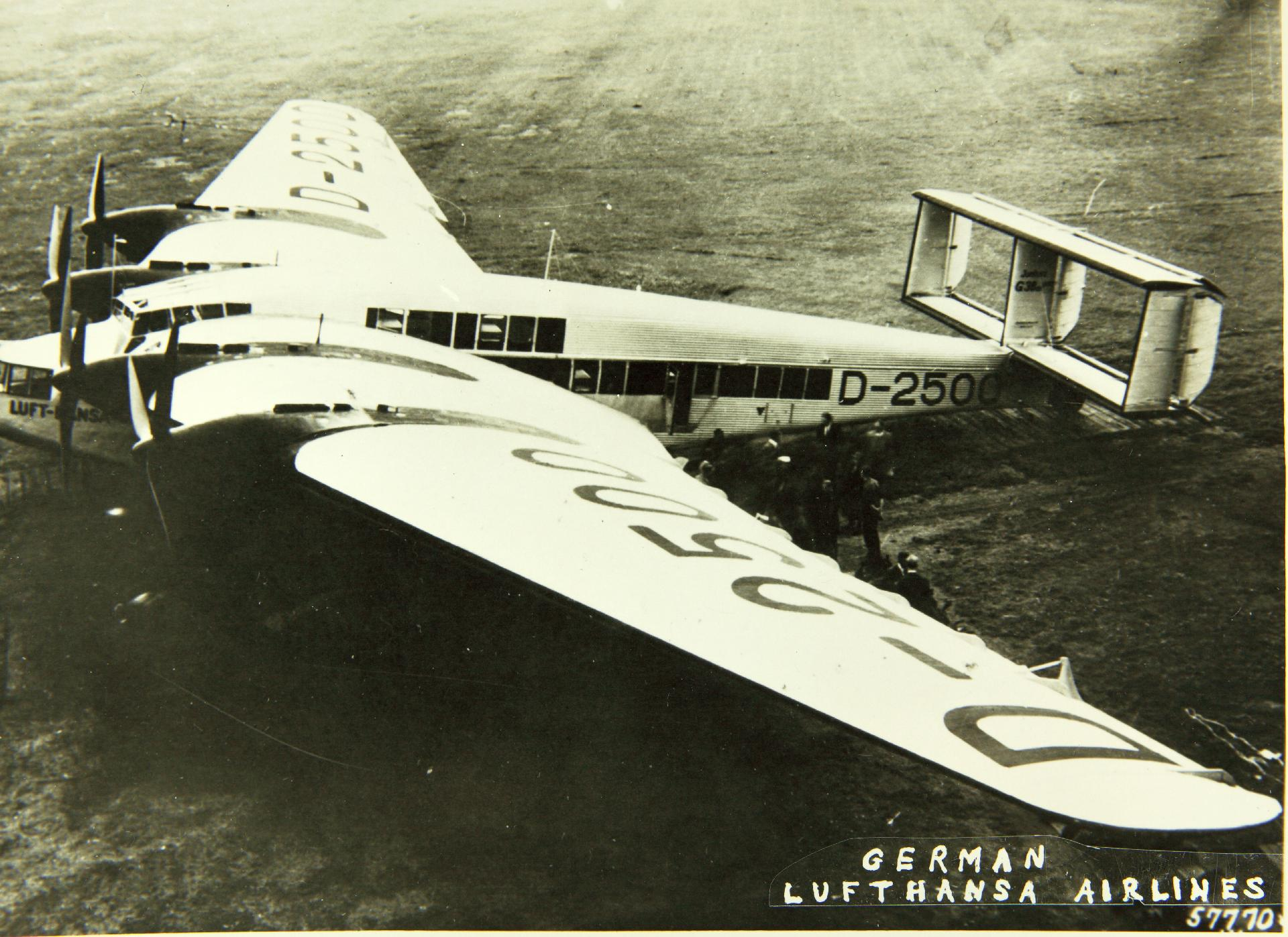 Junkers G 38 of Lufthansa.